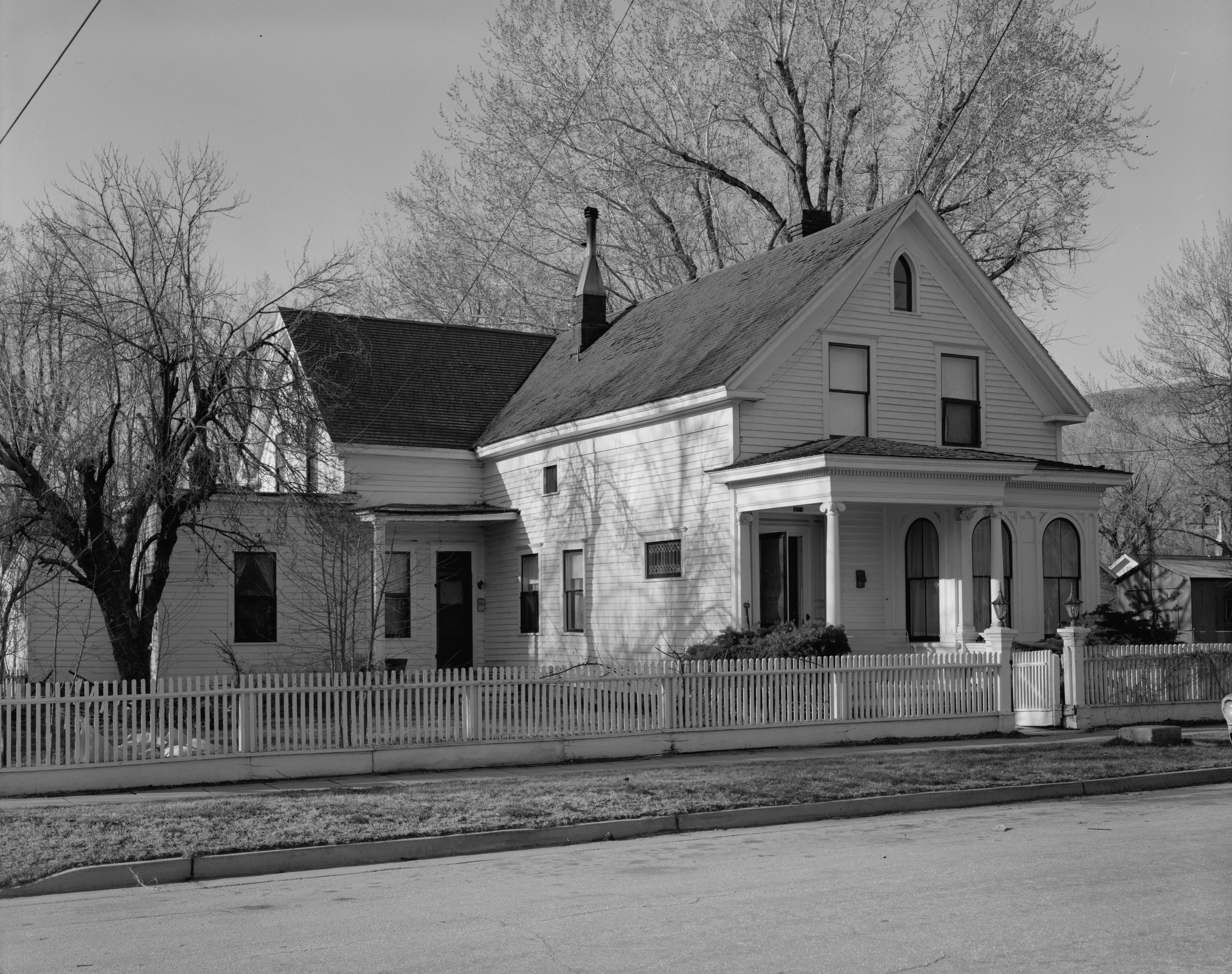 Front of the Sears-Ferris House, located at 311 W. Third Street in Carson City, Nevada, United States. Built in 1863, it is listed on the National Register of Historic Places.